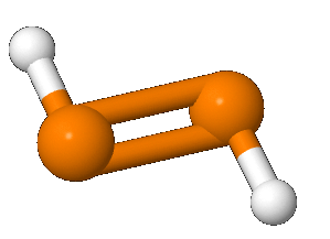 Ball and stick modle of diphosphene molecule